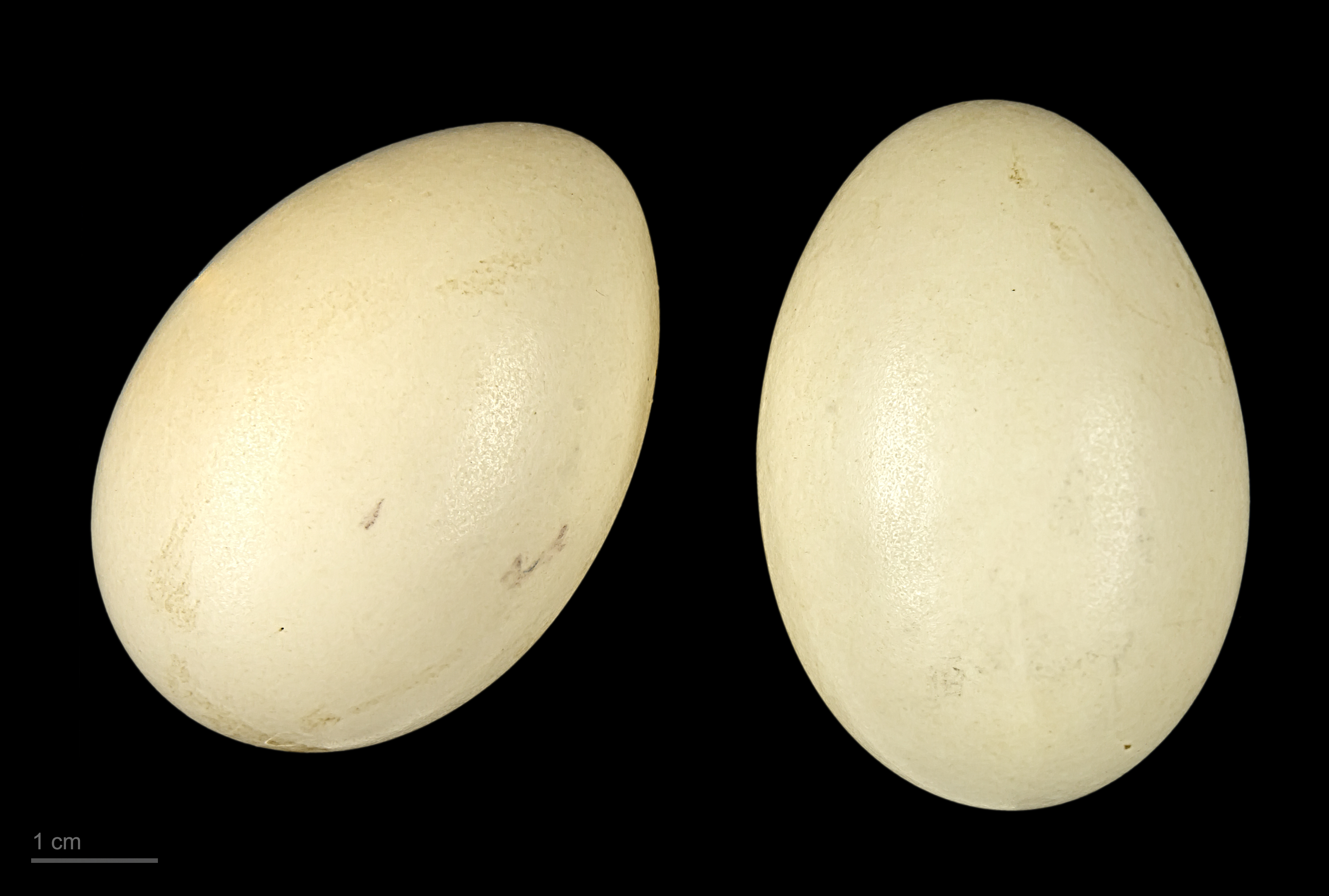 Eggs of Yellow-billed Teal (oxyptera) Two specimens of the same spawn ; collection of Jacques Perrin de Brichambaut.